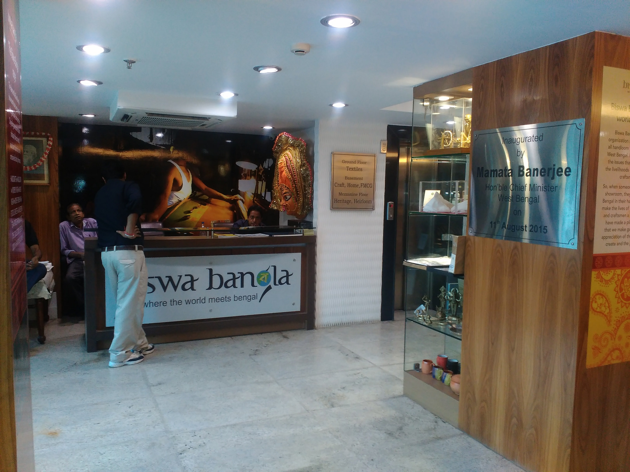 interior